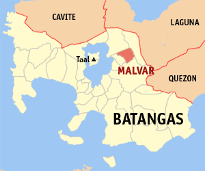 Map of Batangas showing the location of Malvar